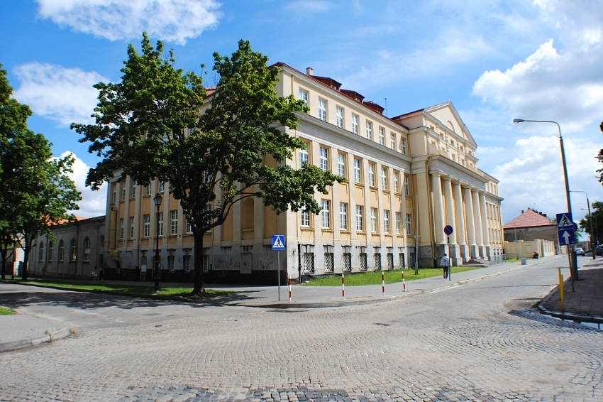 View of the Catholic's Schools Complex named of Jan Długosz in Włocławek.